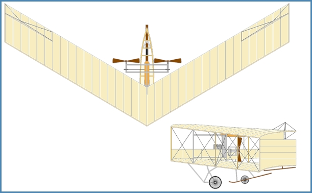 Dunne D-5